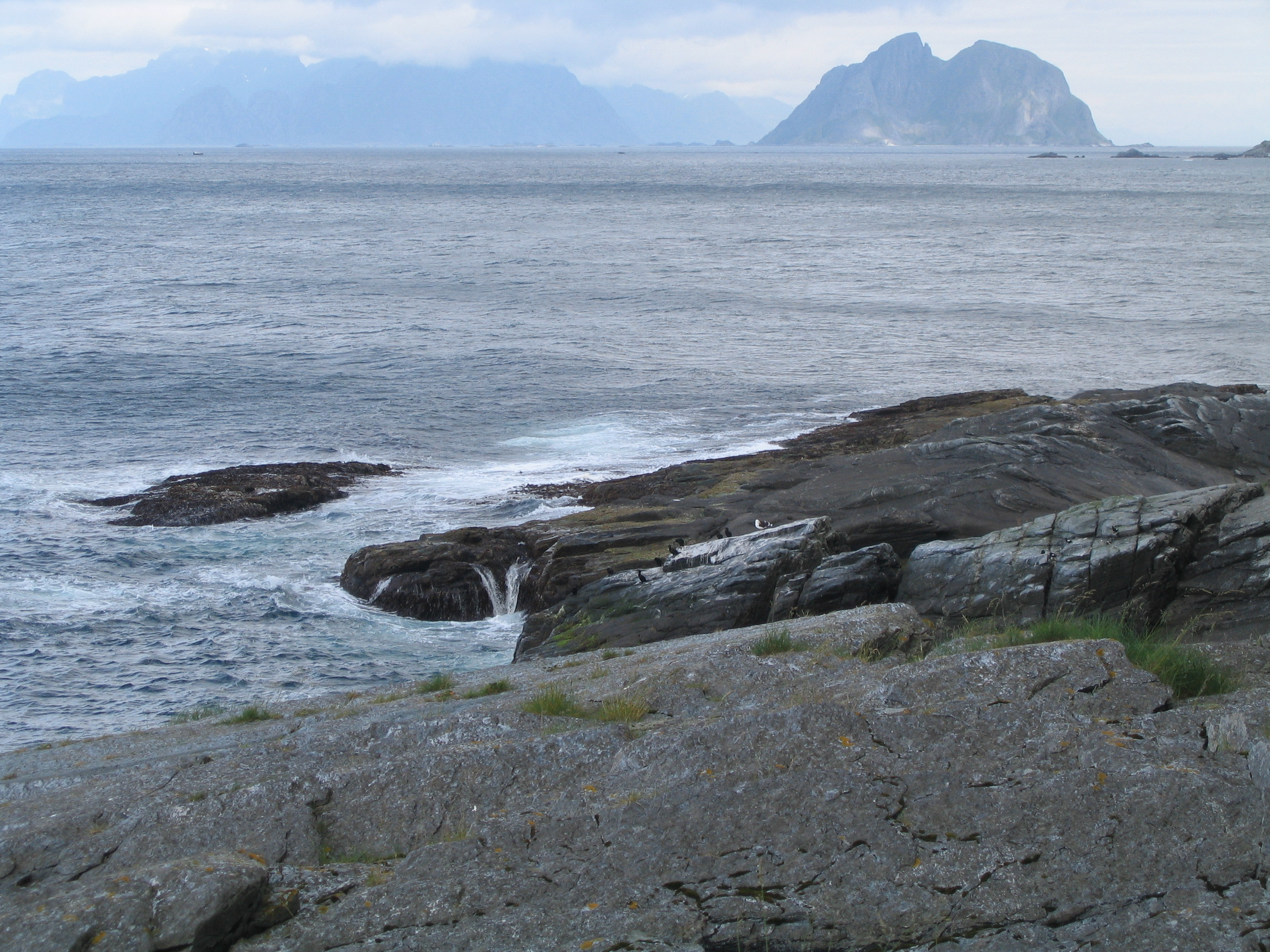 View from the island "Værøy" towards "Mosken" (the island on the right) and "Moskenes" (the island in the background, towards the left). See also Image:Værøy-lundehund-2005-07-11.jpg